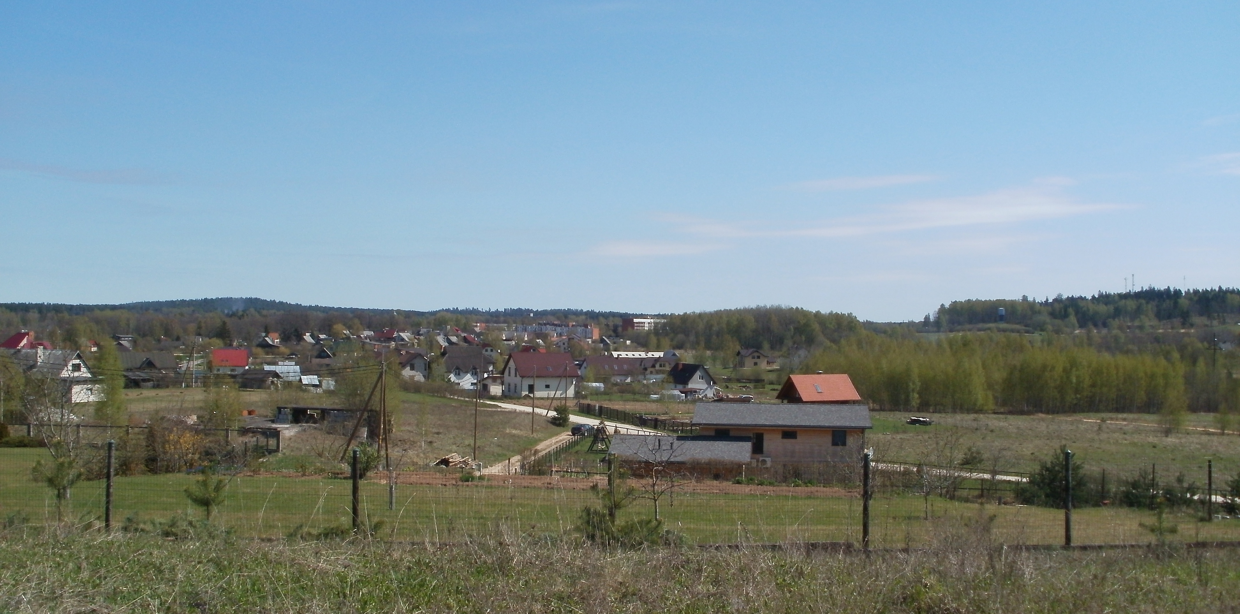 Baldone from Vanagkalns Hill